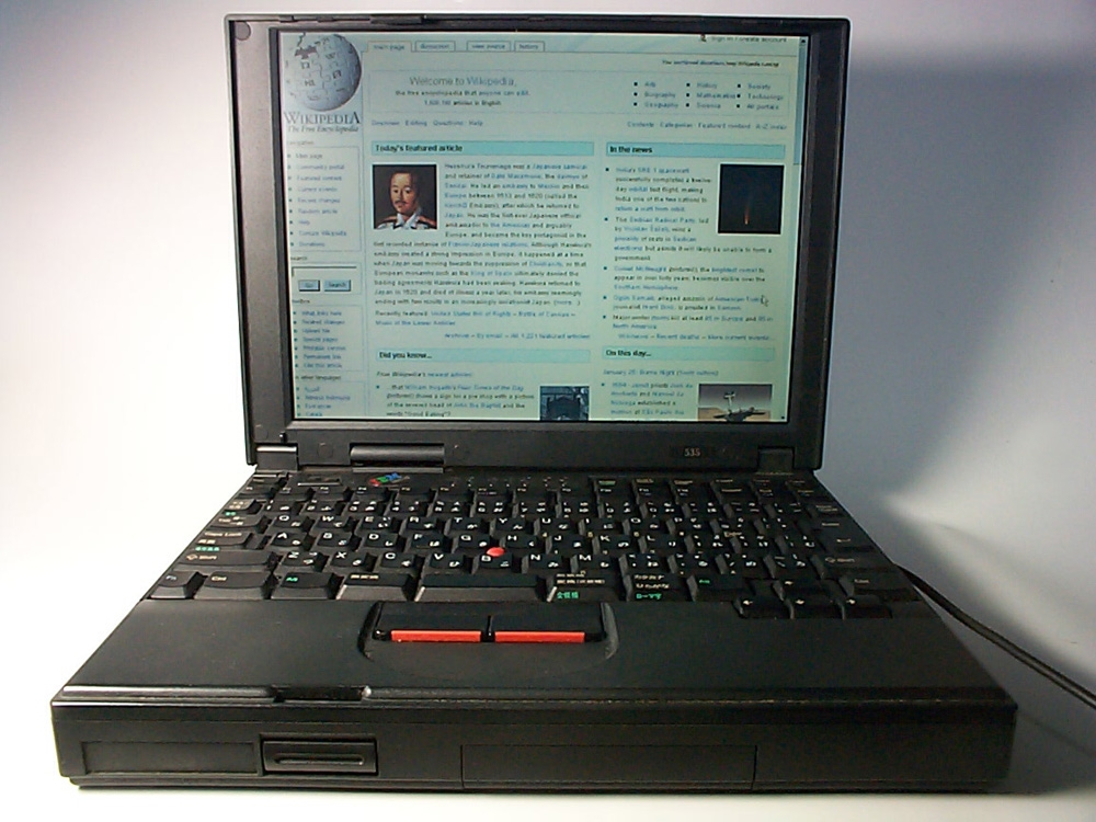 Personal Computer ThinkPad_535_IBM Japan